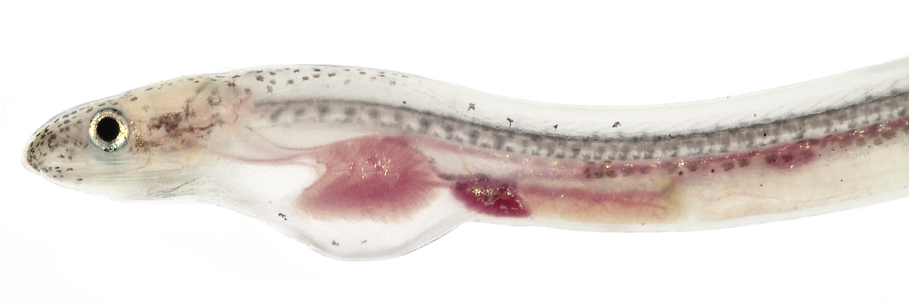 Description: The standard length of the larval worm eel is sixty-one millimeters. This image was taken with a Fujifilm FinePix S3 Pro 12.3-megapixel camera with a 105-millimeter f/2.8D AF Micro-Nikkor lens and dual Nikon SB28 flash units. Creator/Photographer: Belize Larval-Fish Group 2005 The Division of Fishes of the Smithsonian's National Museum Natural History has sent several teams to Belize in order to photograph larvae in the field. The 2005 team included Julie H. Mounts and Carole C. Baldwin from April 20 through 27; Mounts, David G. Smith, and Lee A. Weigt from April 27 through May 4; and Smith and Weigt from May 4 through 11. Medium: Digital photograph Geography: Belize Date: 2005 Persistent URL: Repository: National Museum of Natural History , Division of Fishes Image ID: P-19b, DMSO 5018